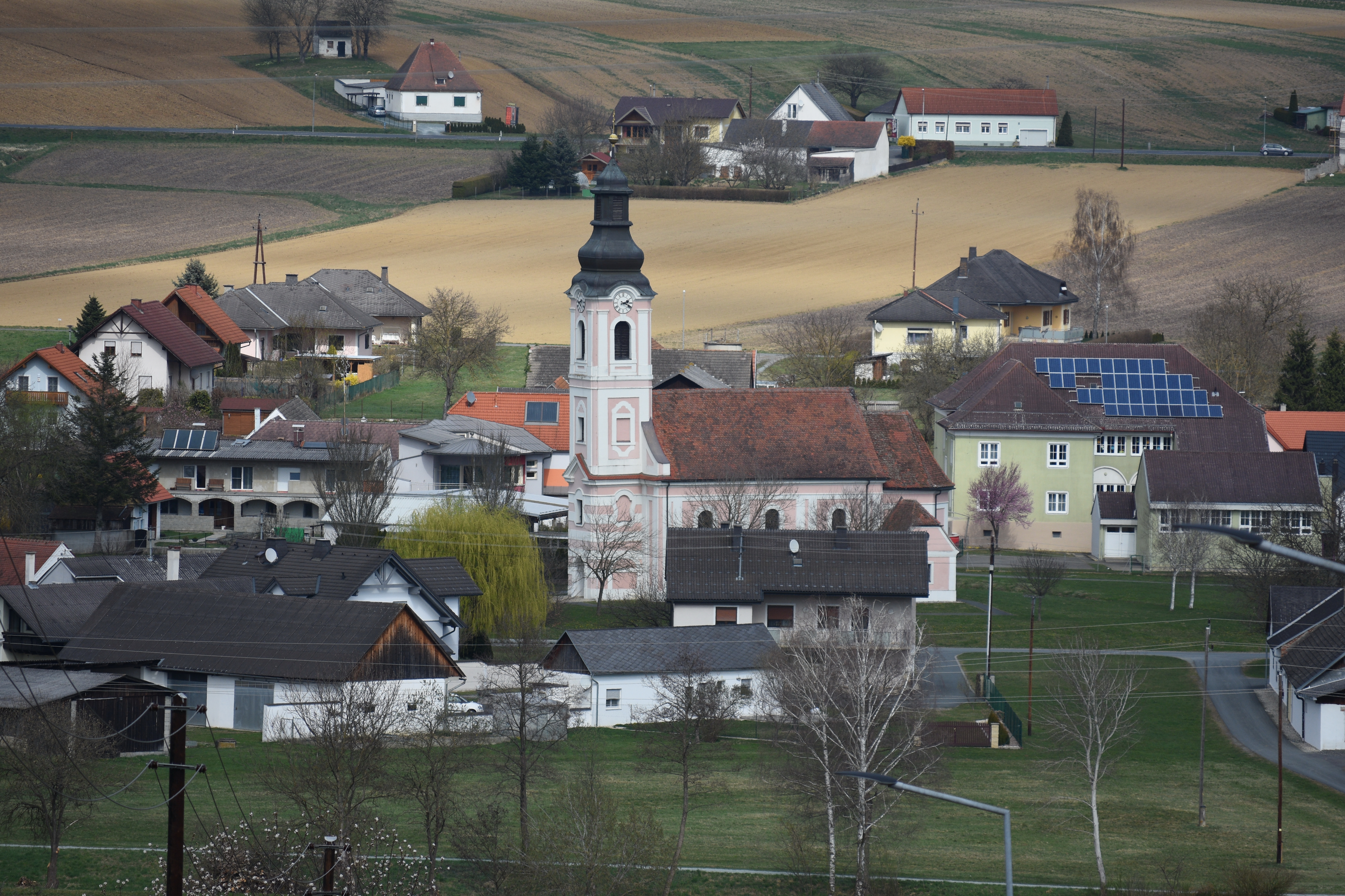 Bocksdorf